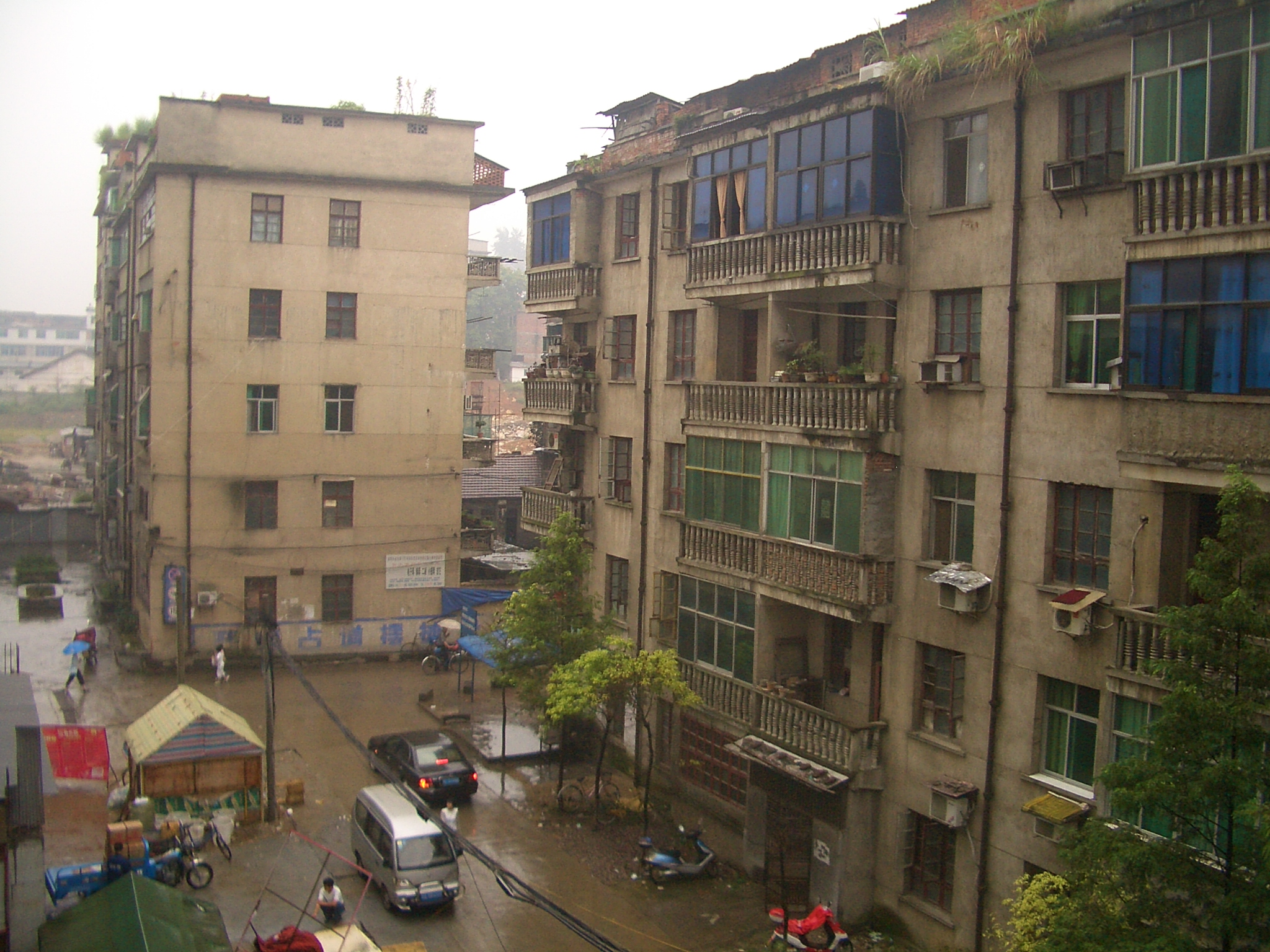 An apartment complex in downtown Tongyang Town, the county seat of Tongshan County, Hubei. Note the creative use of the building roofs!